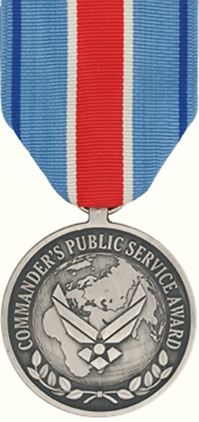 The US Air Force's Commander's Public Service Award